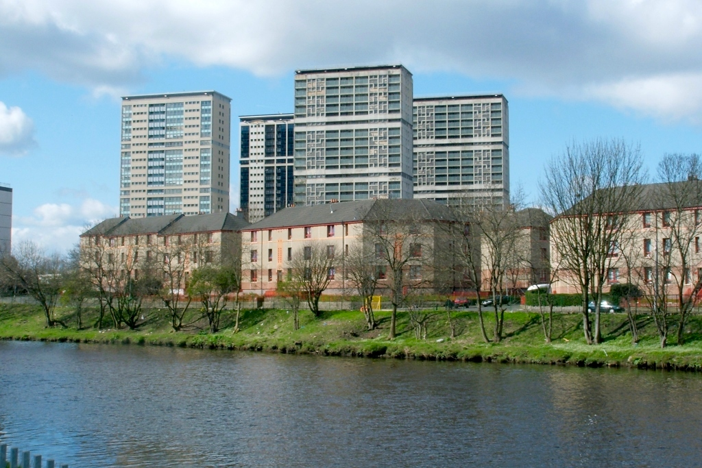 Housing in Hutchesontown